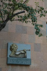 Anahit Tsitsikian statue